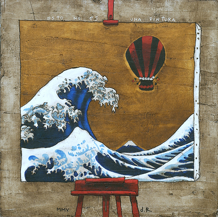 Painting in mixed media on wood.